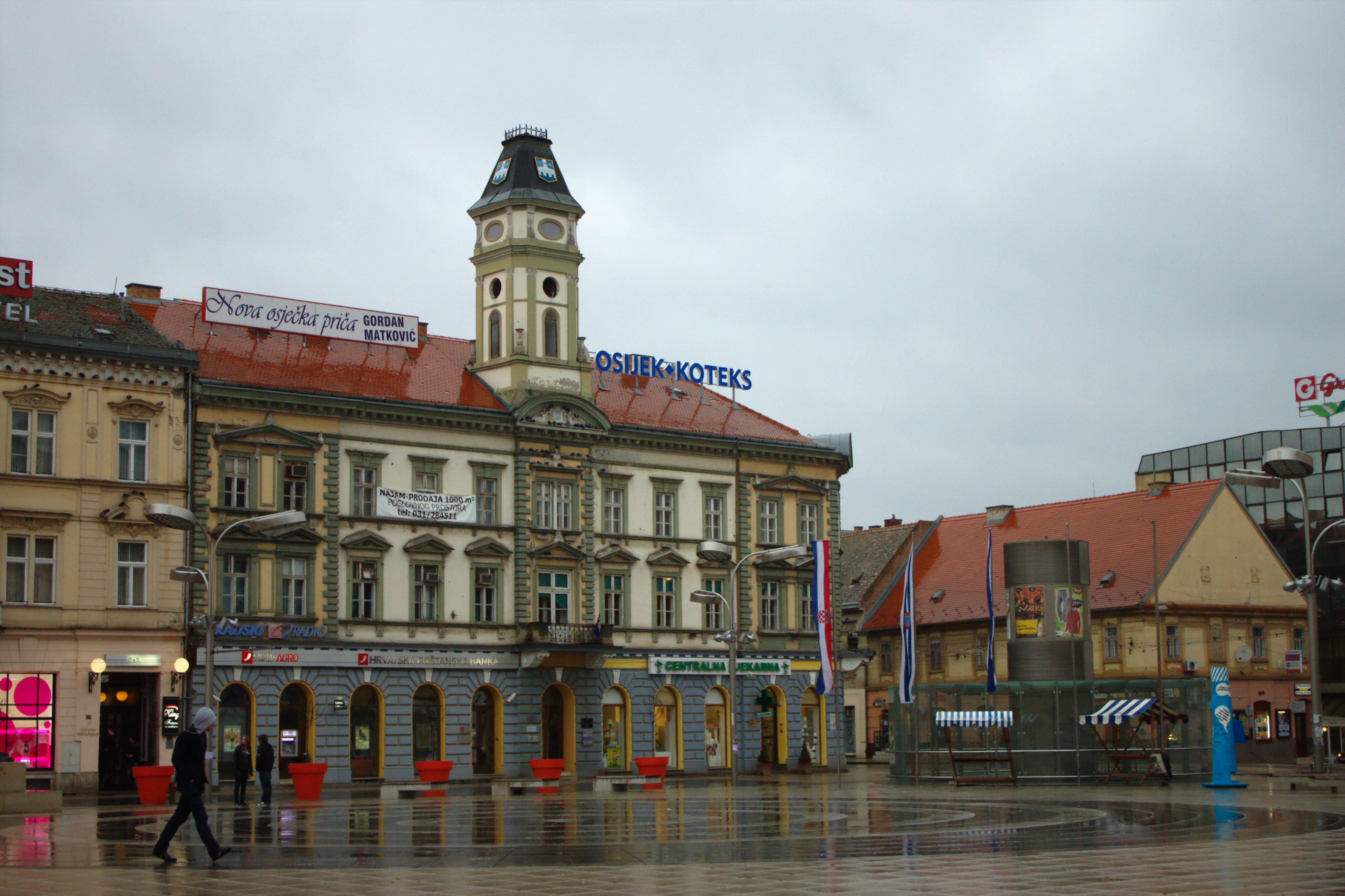 The square of Ante Starčević in the central part of the town of Osijek, Croatia. The square was completely reconstructed after the war in 1991-1995